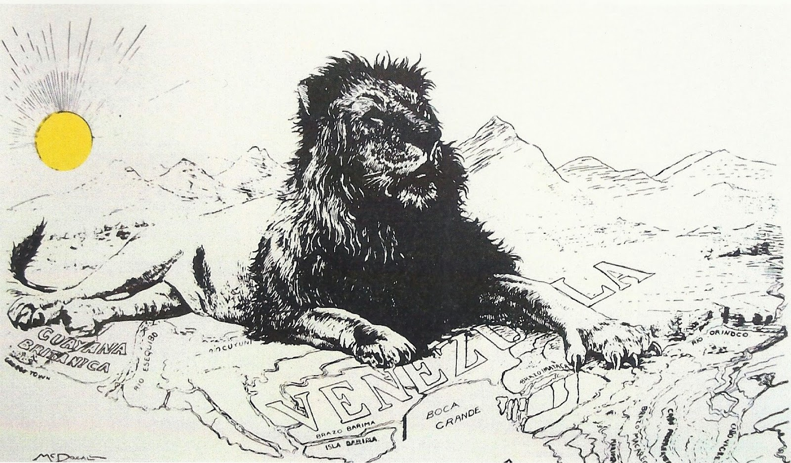 1887 Venezuelan cartoon about the territorial dispute over the boundary between British Guiana and Venezuela; the British lion is shown imperialistically aggrandizing territory. See Venezuela_Crisis_of_1895 and Laudo_Arbitral_de_París for subsequent events